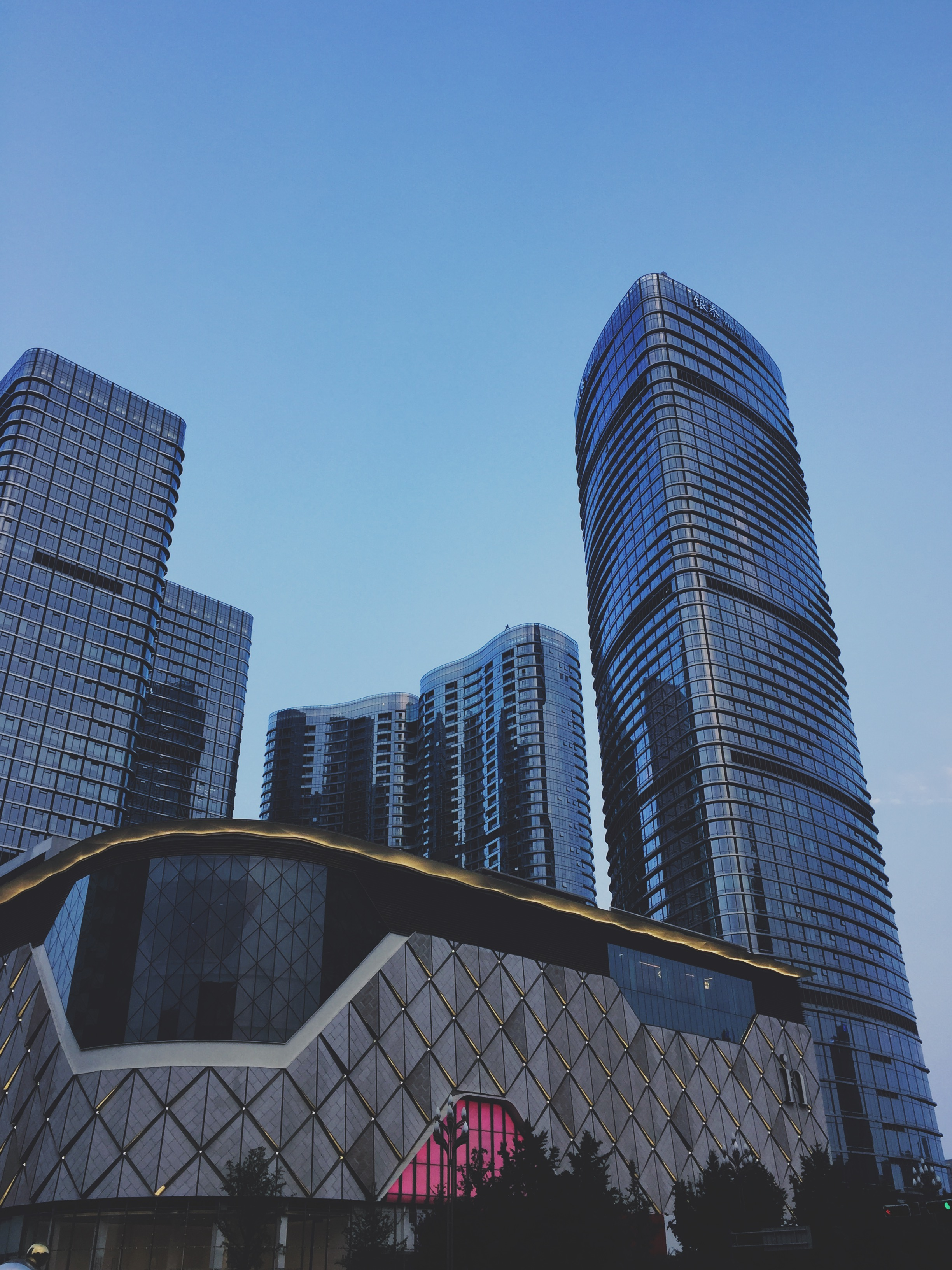 Waldorf Astoria in Chengdu, China